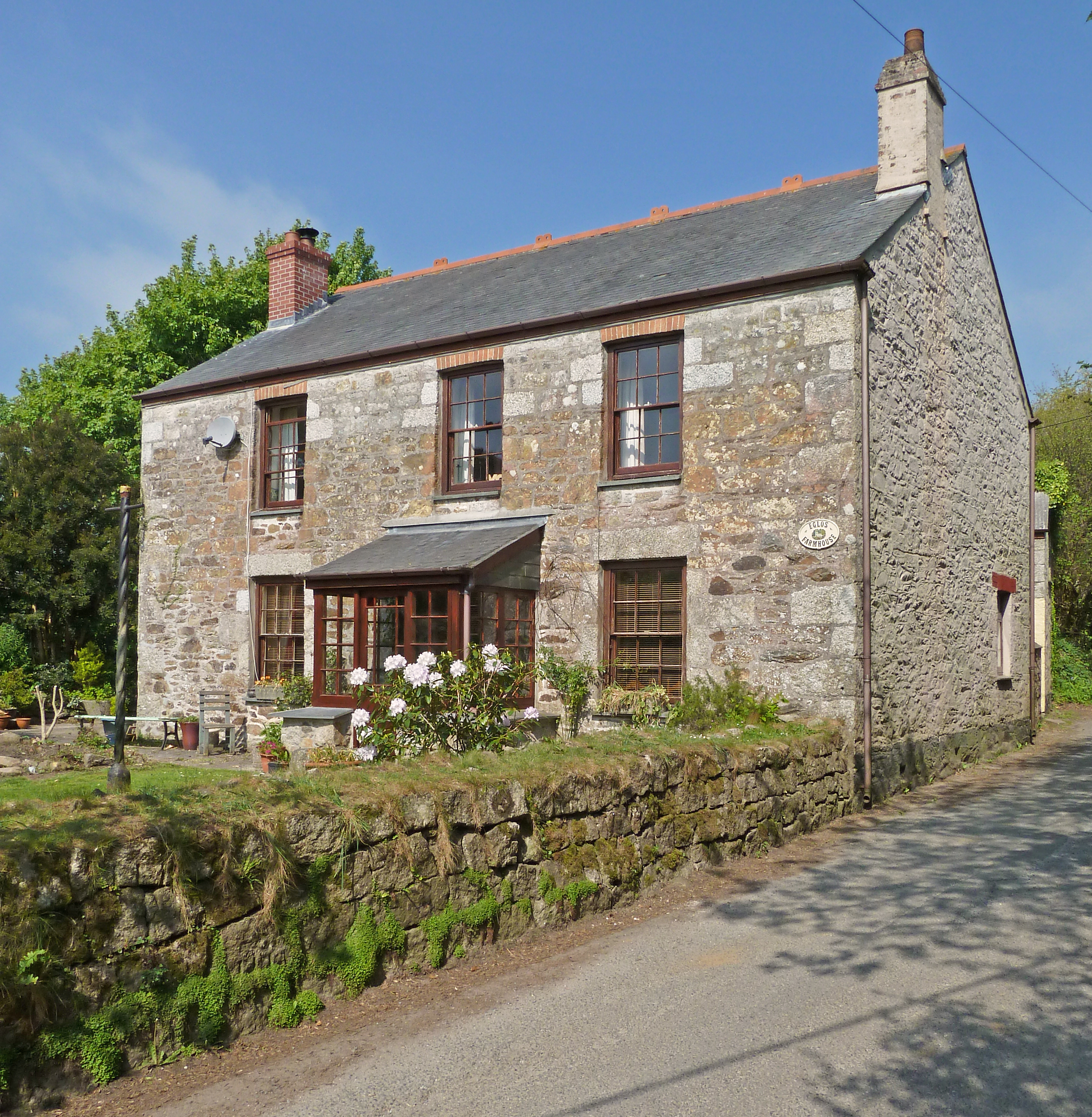 Grade II listed. Circa mid C19. Killas rubble walls with granite and brick dressings. Grouted scantle slate roof with brick chimneys over the gable ends. (2 chimneys on the left one on front and one behind the ridge, one chimney on the right in front of the ridge). Cast-iron ogee-section gutters. Plan: Double-depth plan with 2 rooms at the front flanking an entrance hall leading probably to stair hall between rear service rooms. Front left-hand room is wider and is probably the kitchen/living room. Exterior: 2 storeys. Nearly symmetrical 3 window south-south-east front with doorway (right of middle) central to fenestration. Granite lintels over ground floor openings, shallow brick arches over first floor window openings. C20 porch in front of doorway. Original 12-pane hornless sashes (also at rear).